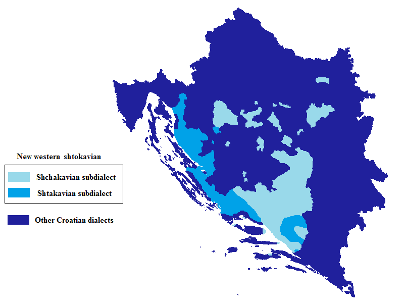 Made by data from the